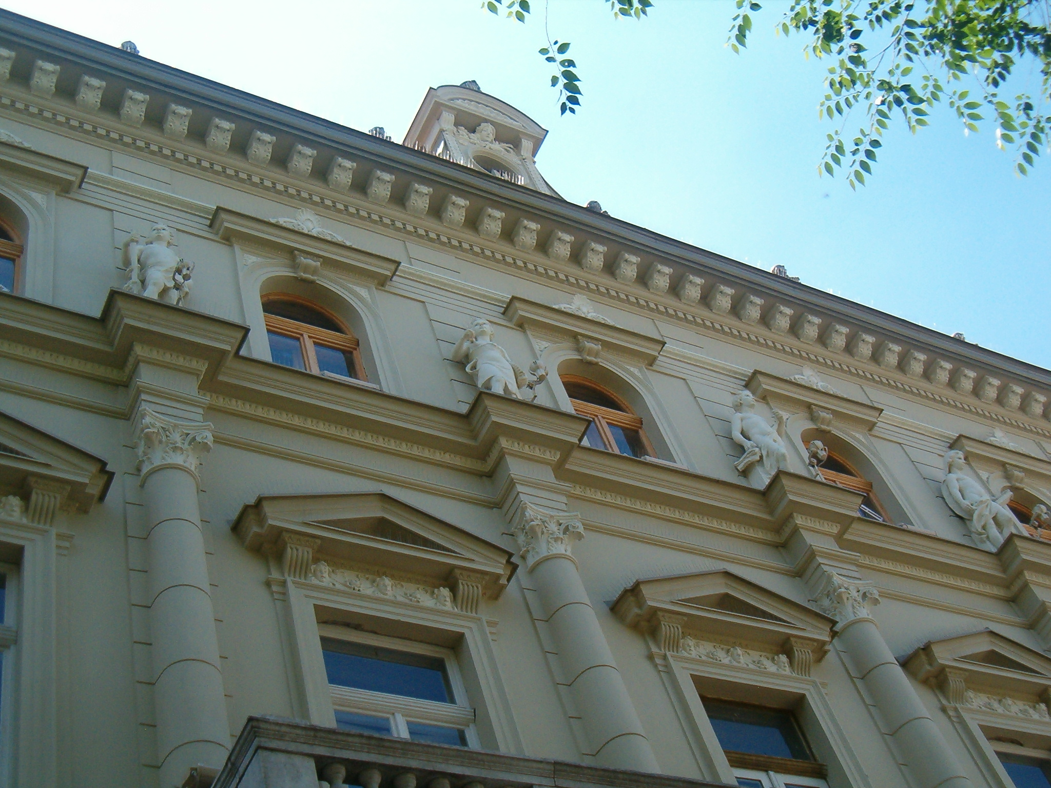 National Museum, Zrenjanin, Vojvodina, Serbia